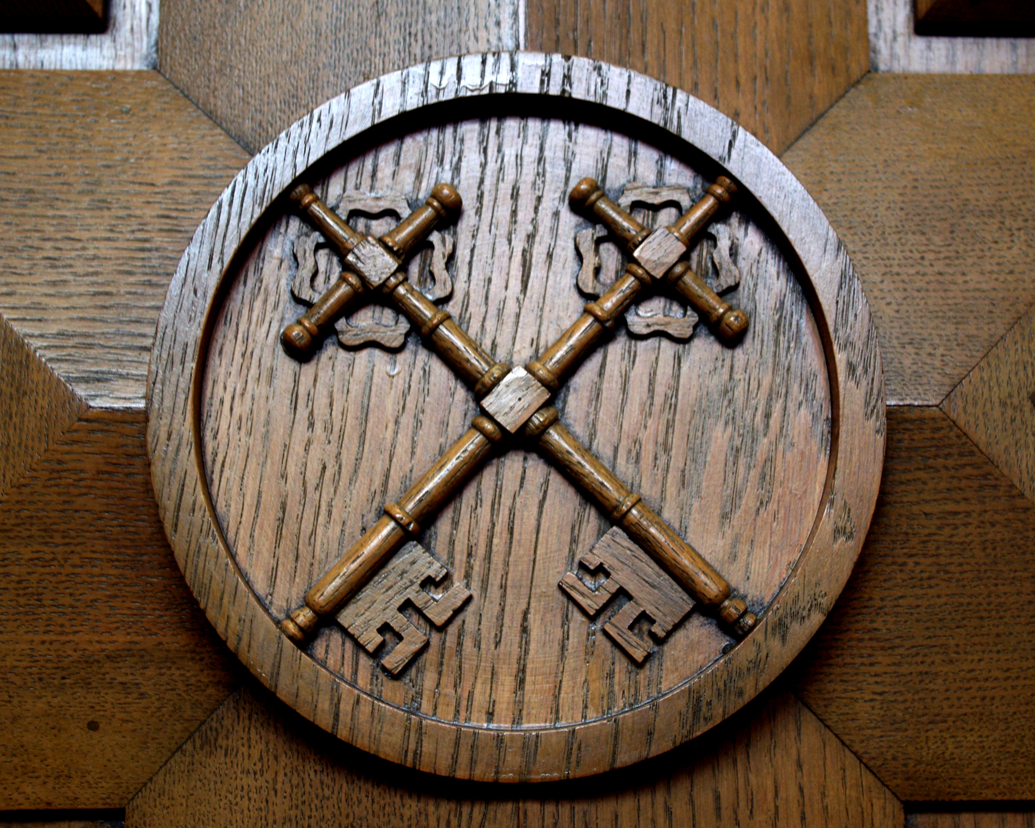 Saint Catharine of Siena Church (Columbus, Ohio) - confessional, Keys of Peter